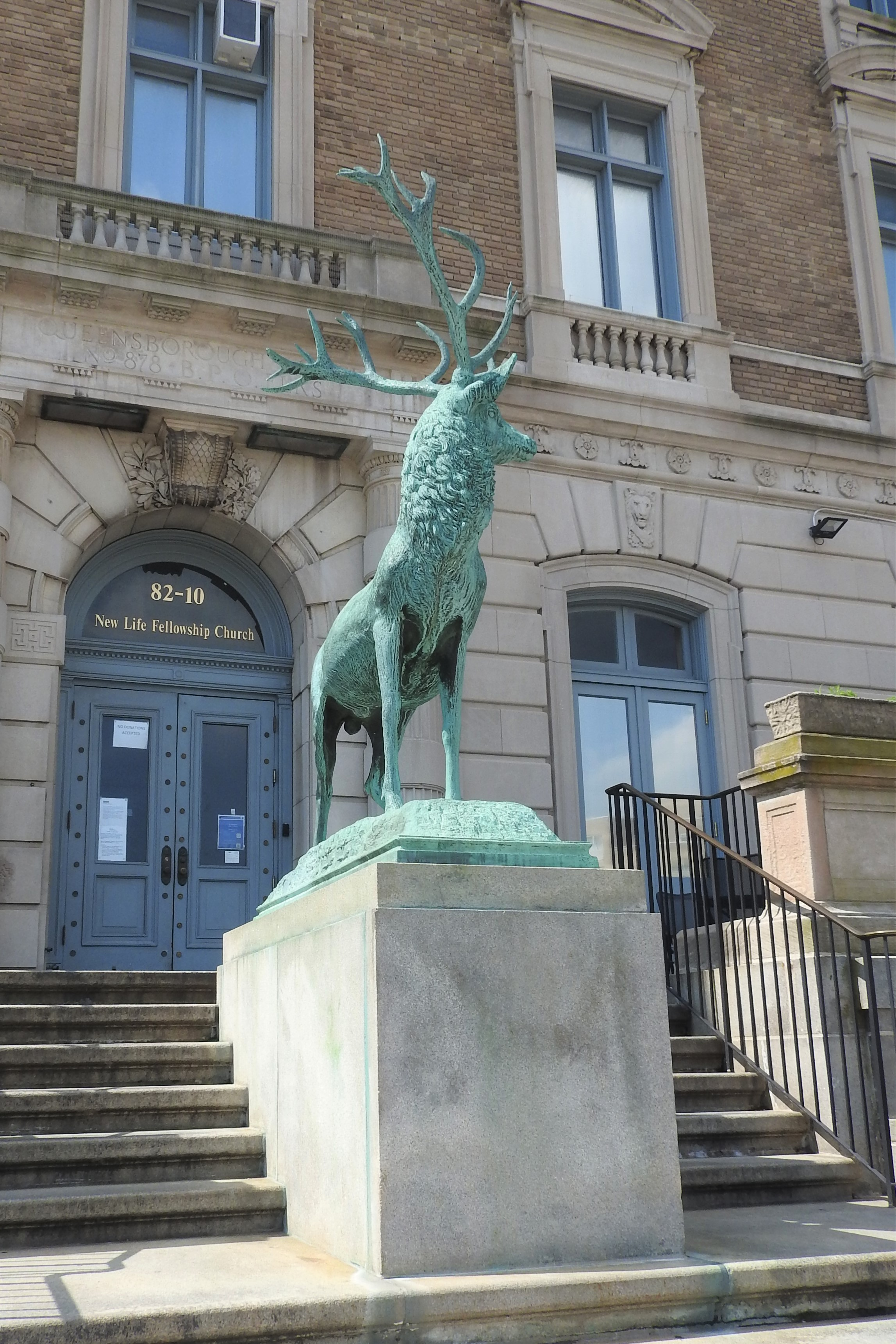 Looking southwest at statue on a hot mostly sunny late morning